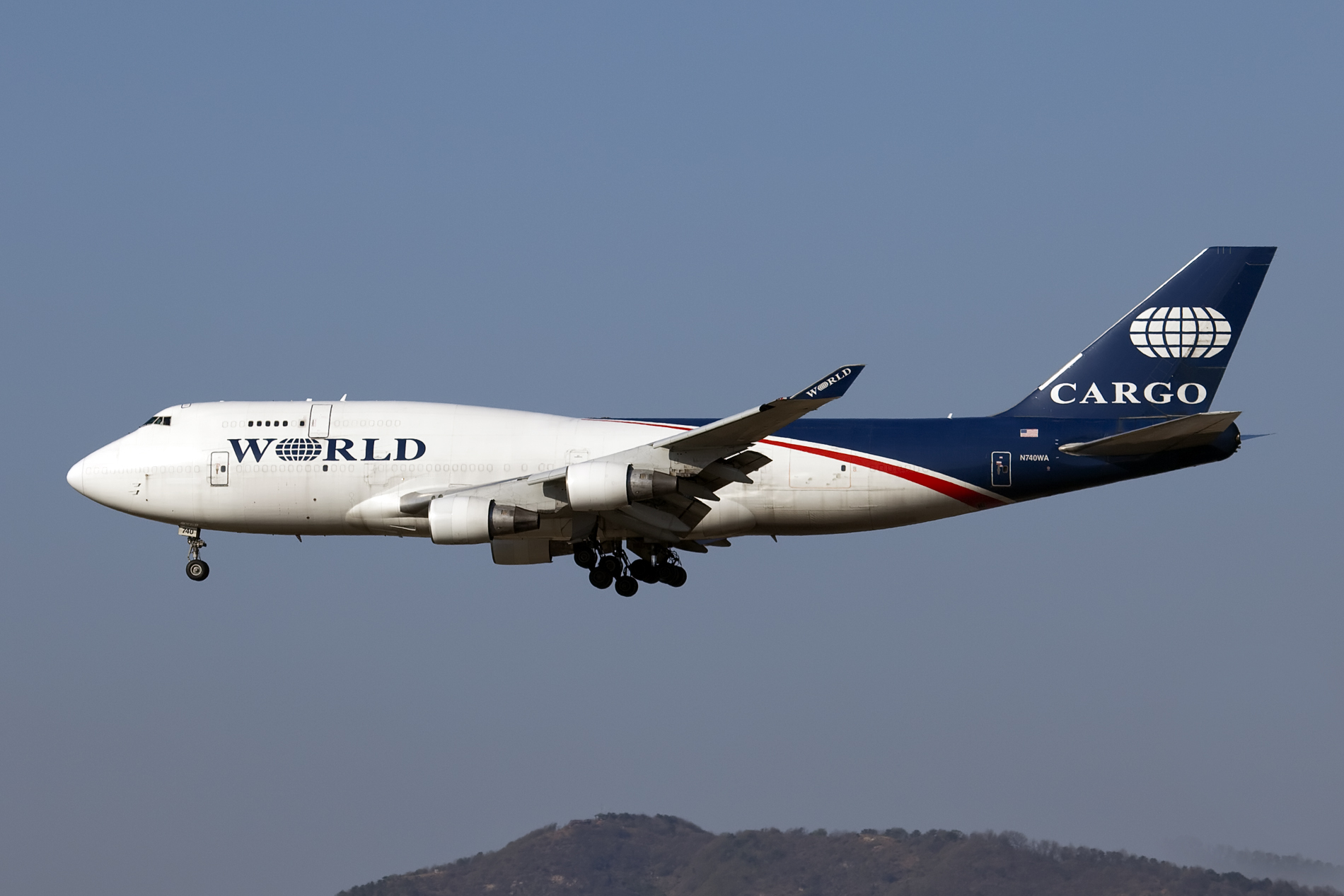 Seoul-Incheon